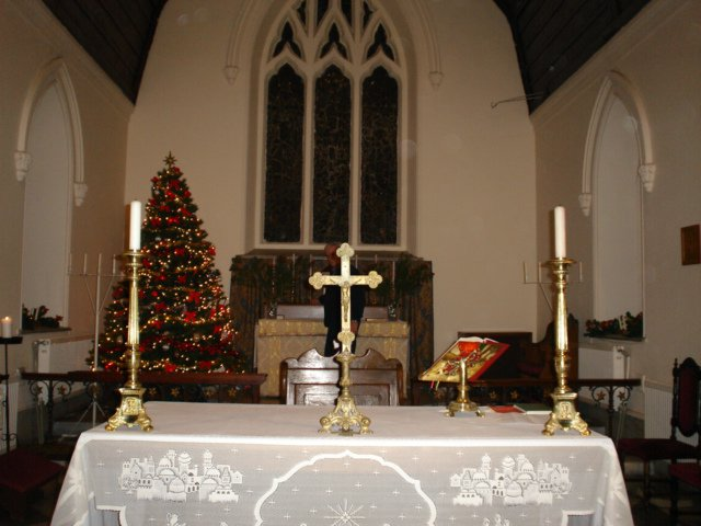 The altar of the church before Christmas service